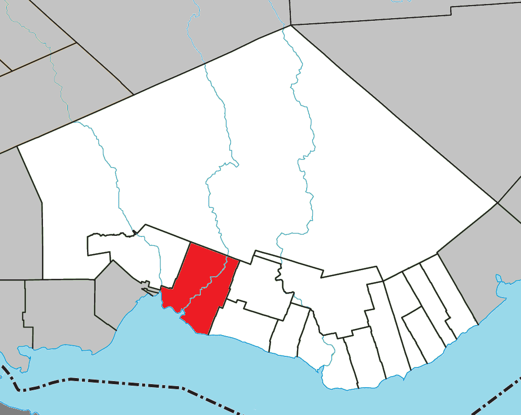 Location of New Richmond, Quebec within Bonaventure Regional County Municipality.